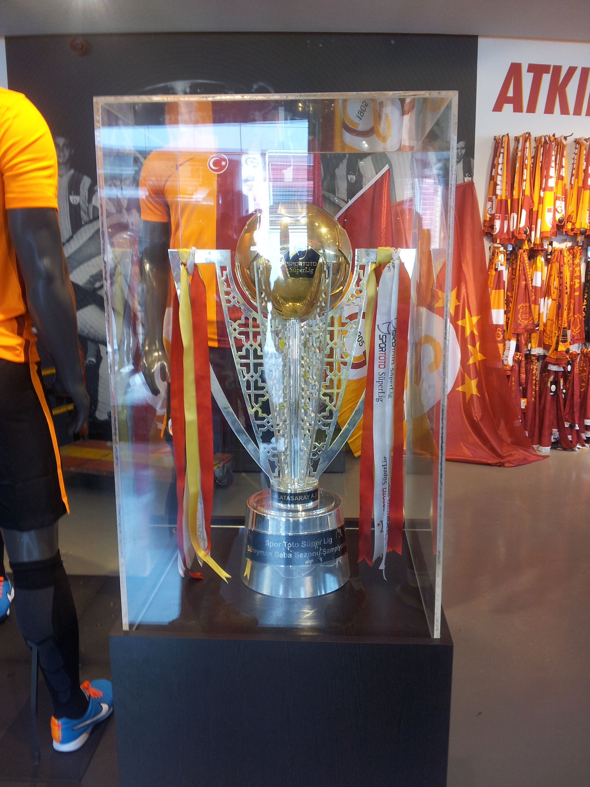 2014–15 Süper Lig CupTürkçe: 2014-15 Süper Lig kupası